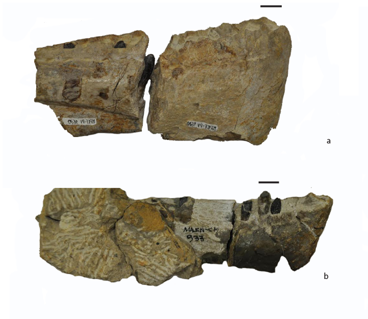 Craniomandibular material from the Cañadón Asfalto Formation, with tooth morphotypes based on enamel wrinkling. a: MPEF-PV 1670; b: MACN-CH 933